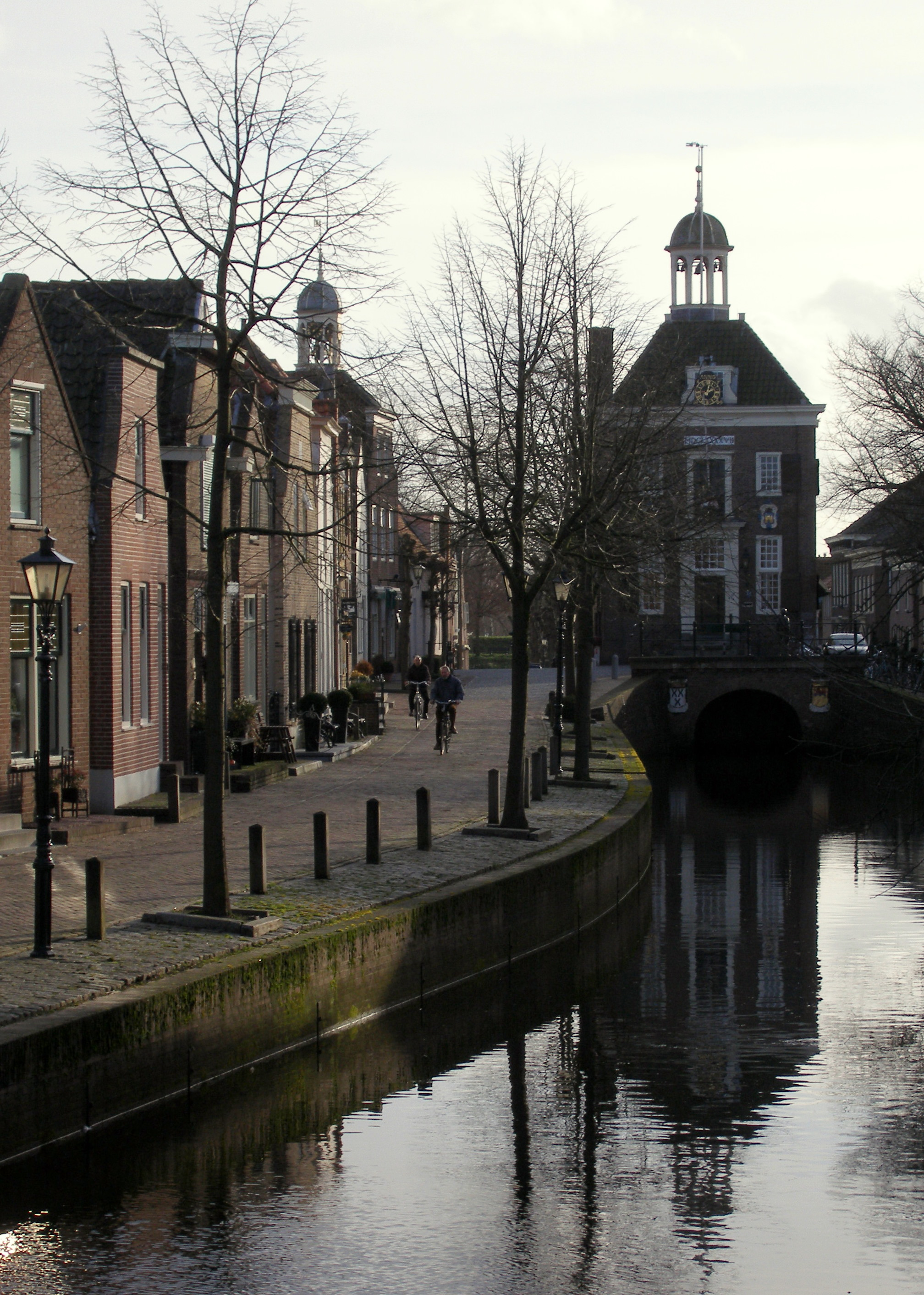 The former town hall (stadhuis) of Nieuwpoort. It was built in 1697. Its national-monument number is 30593.